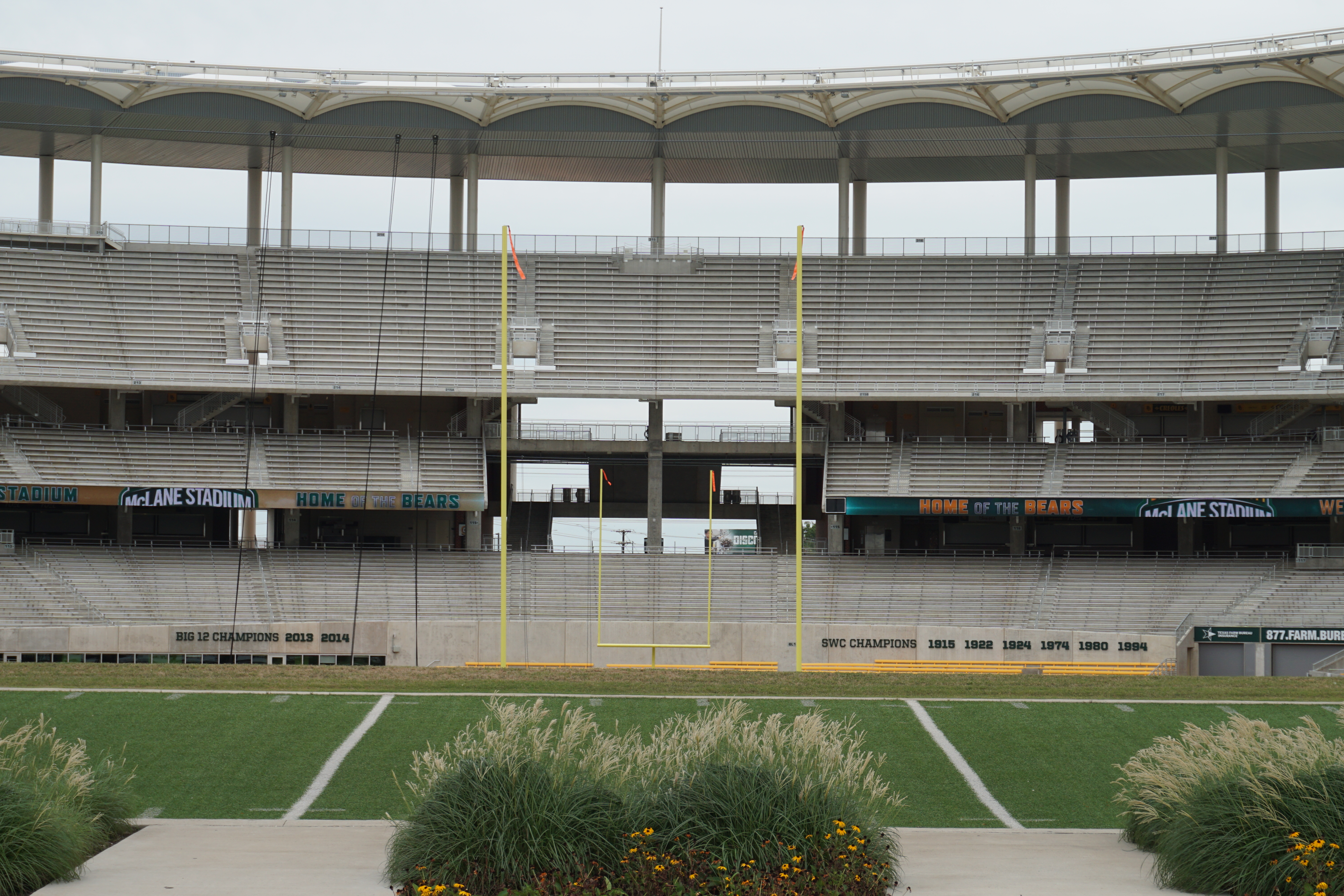 McLane Stadium on the campus of Baylor University in Waco, Texas (United States).